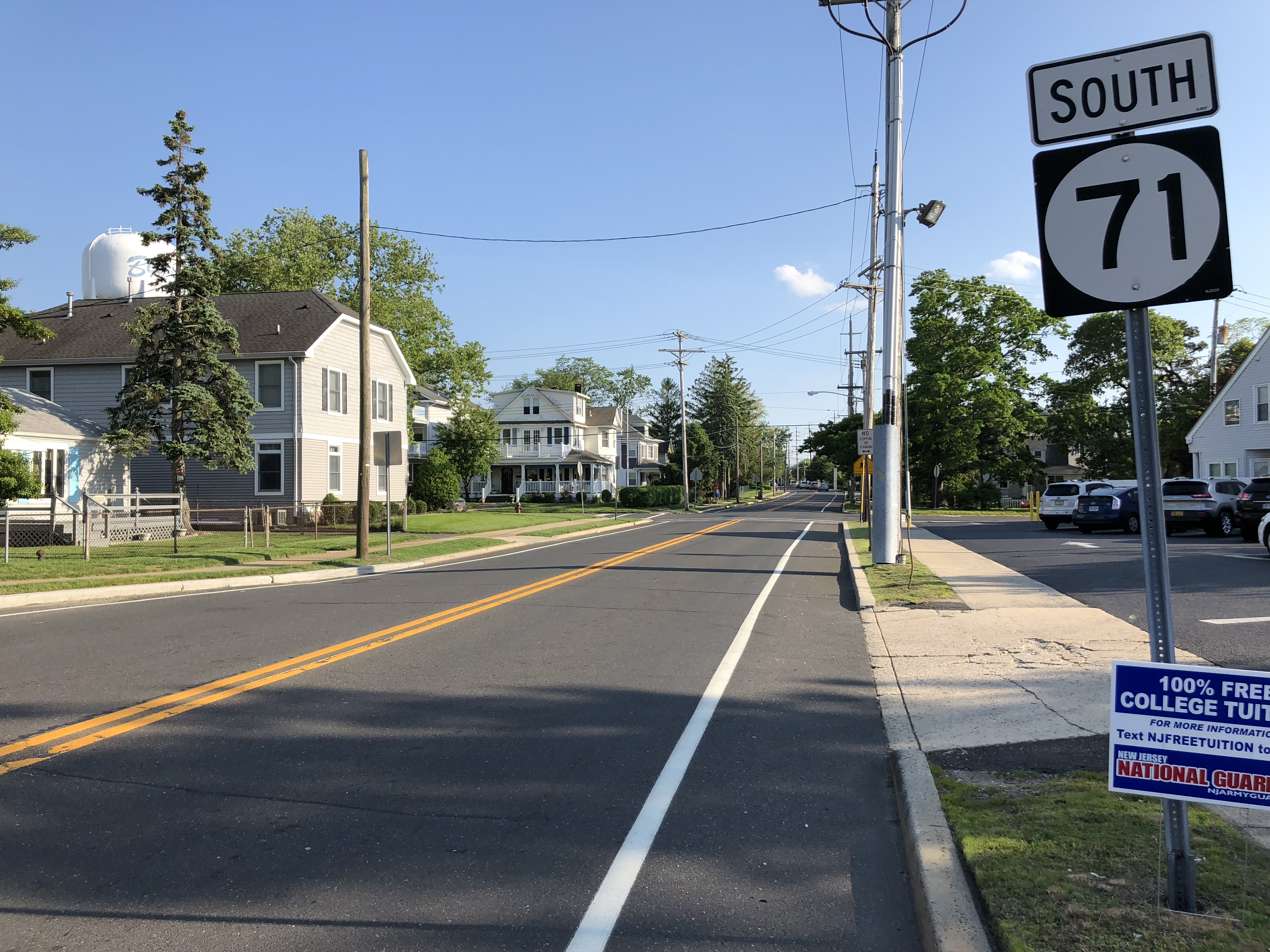 View south along New Jersey State Route 71 (H Street) just south of New Jersey State Route 35 (River Road) in Belmar, Monmouth County, New Jersey